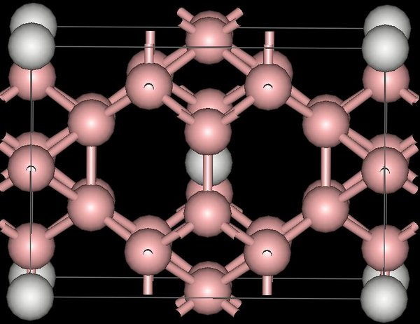 ScB12 tetragonal structure. Boron atoms are red. Journal = MATERIALS RESEARCH BULLETIN, Year = 1970, Volume = 5, Page = 319–328, Title = SUR LE SYSTEME BORE-SCANDIUM, Authors = Peshev P., Etourneau J., Naslain R.